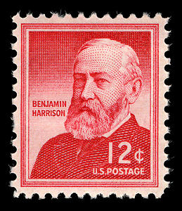 US 12-cent Liberty stamp depicting President Benjamin Harrison (1833-1901), the twenty-third president was issued on June 6, 1959